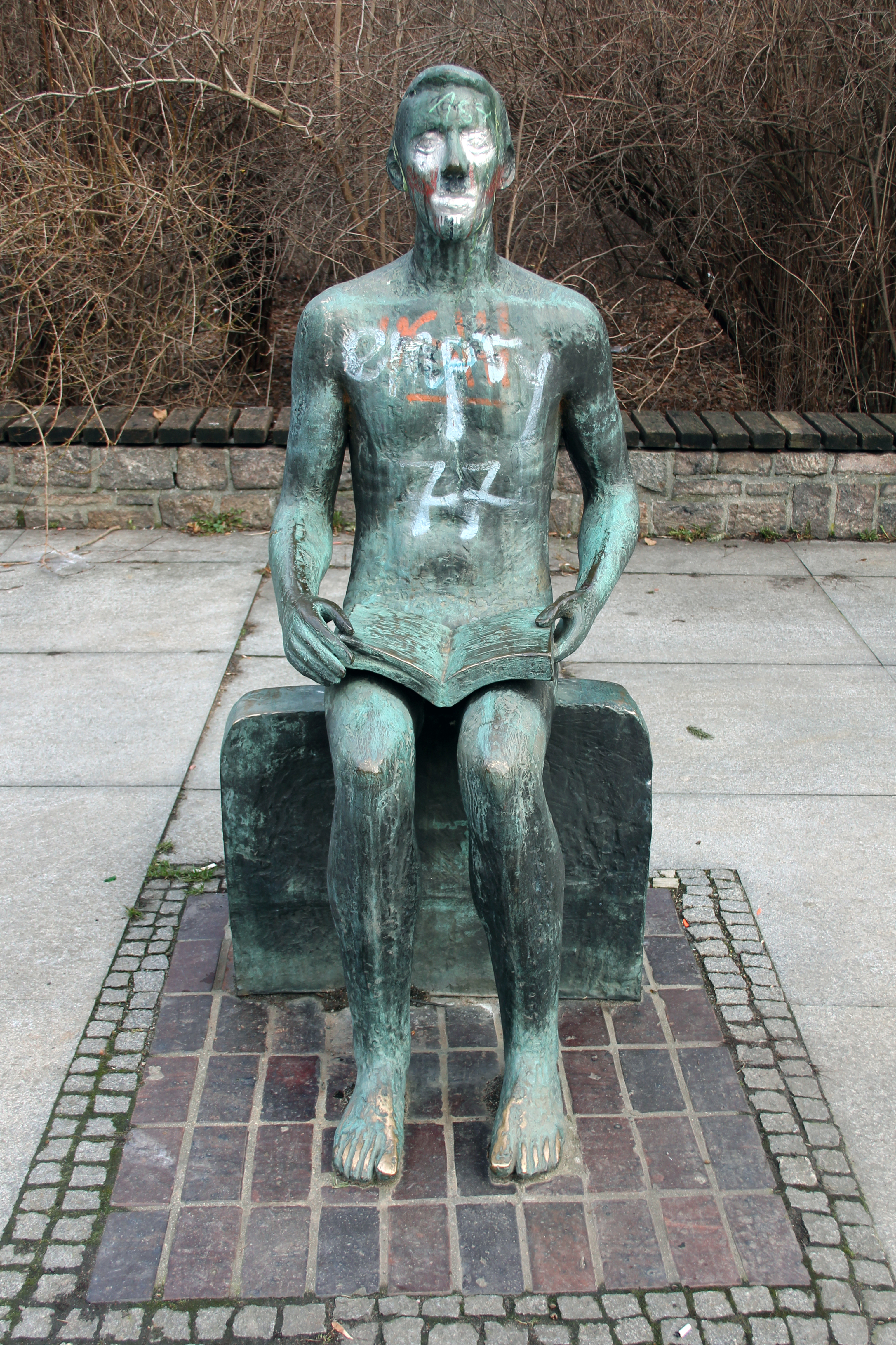 Statue, "Lesender Knabe" by Siegfried Krepp and Gertrud Claasen, 1974, Pistoriusstraße 19, Berlin-Weißensee, Germany